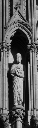 John the baptist at the west wall at Nidarosdomen.